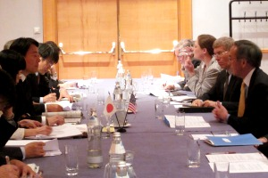 Banri Kaieda, Minister of State for Science and Technology Policy, talked with Steven Chu, Secretary of Energy, in Vienna City, Vienna State on September, 2010.